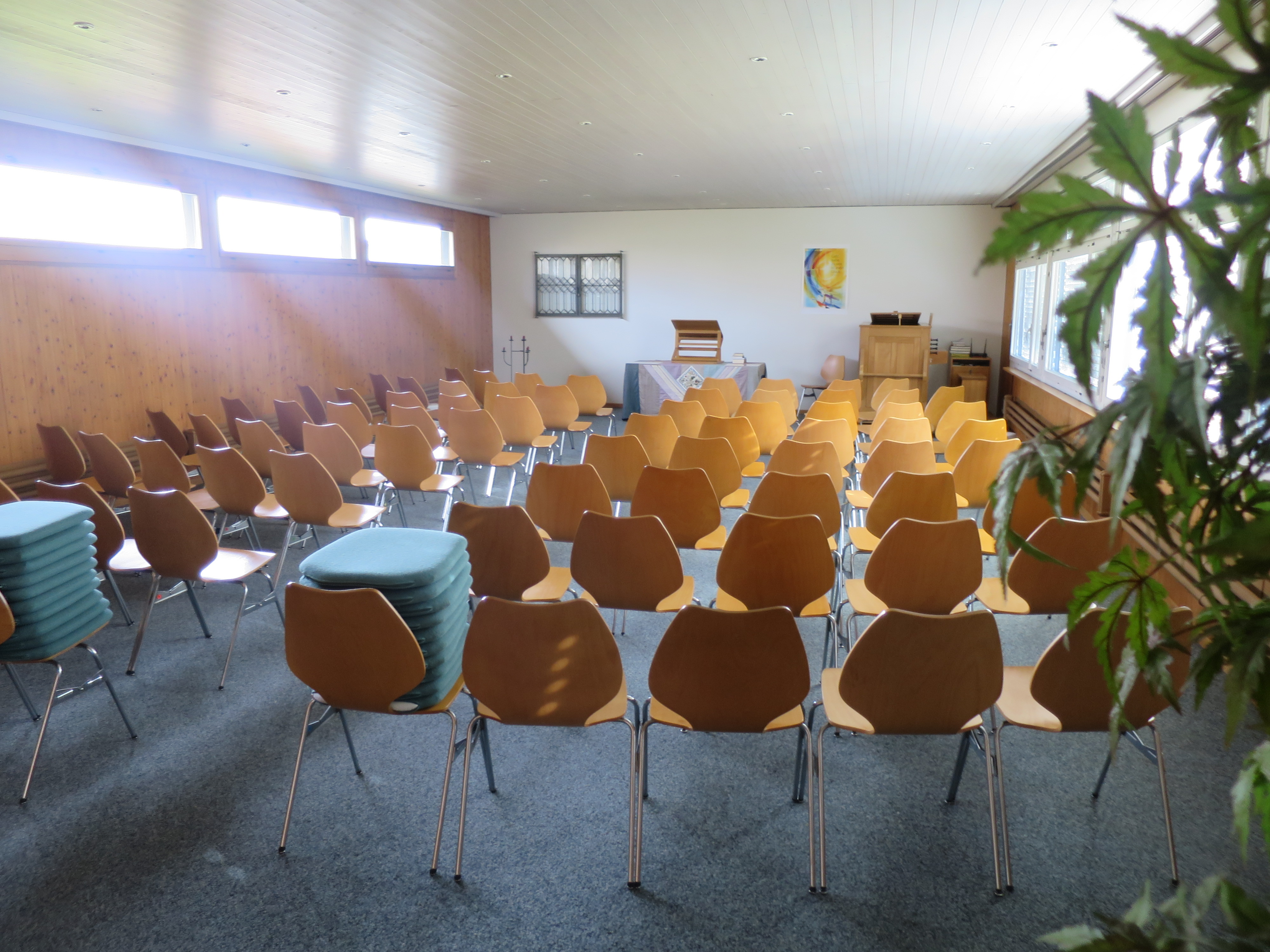 Gottesdienstraum des reformierten Kirchenpavillon Au (1972)